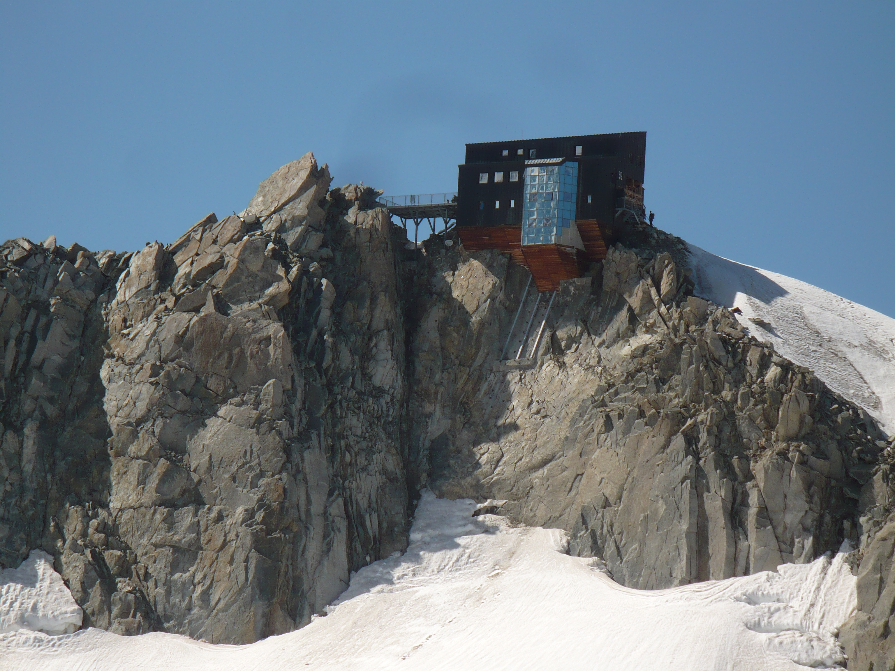 Refuge des Cosmiques - Mont Blanc massif - Haute Savoie - France